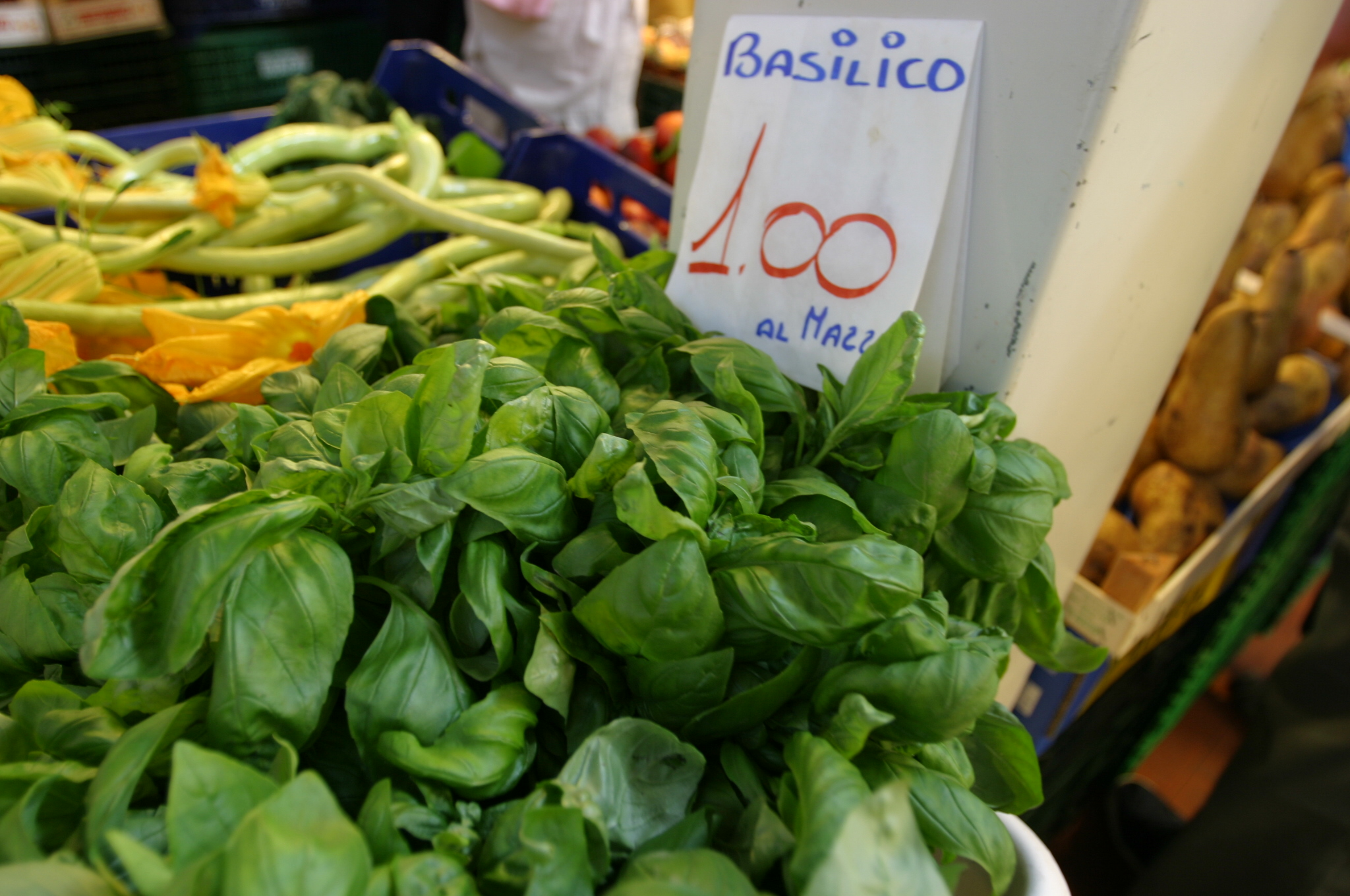 Basilico in Ventimiglia food market, Italy.